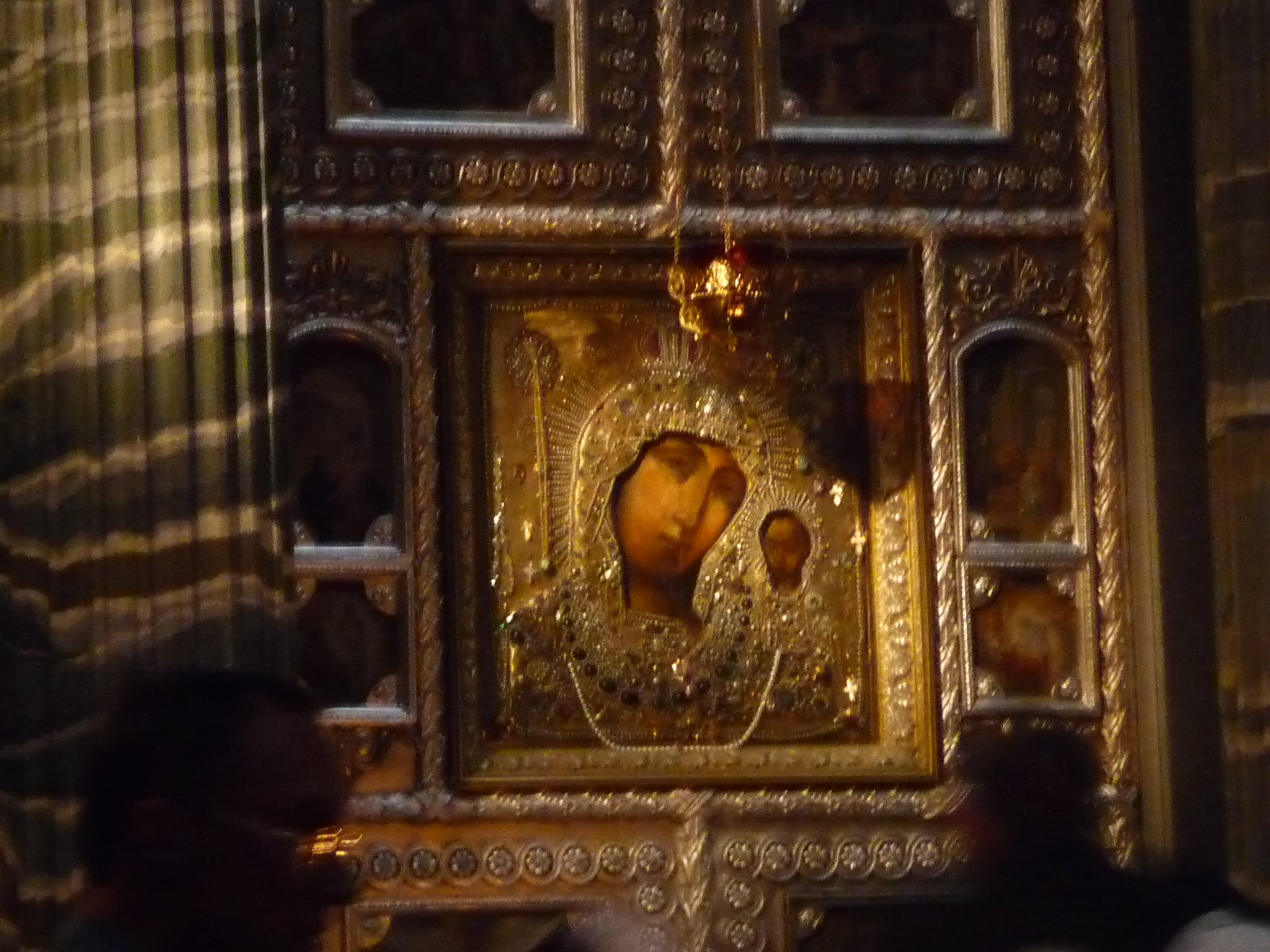 Church-p1030475.jpg